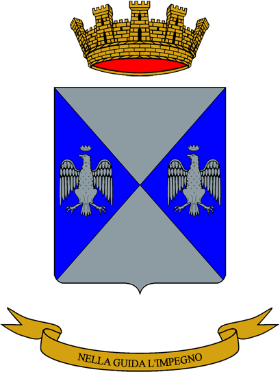 Coat of Arms of the 11° Transport Group "Flaminia"; Italian Army.